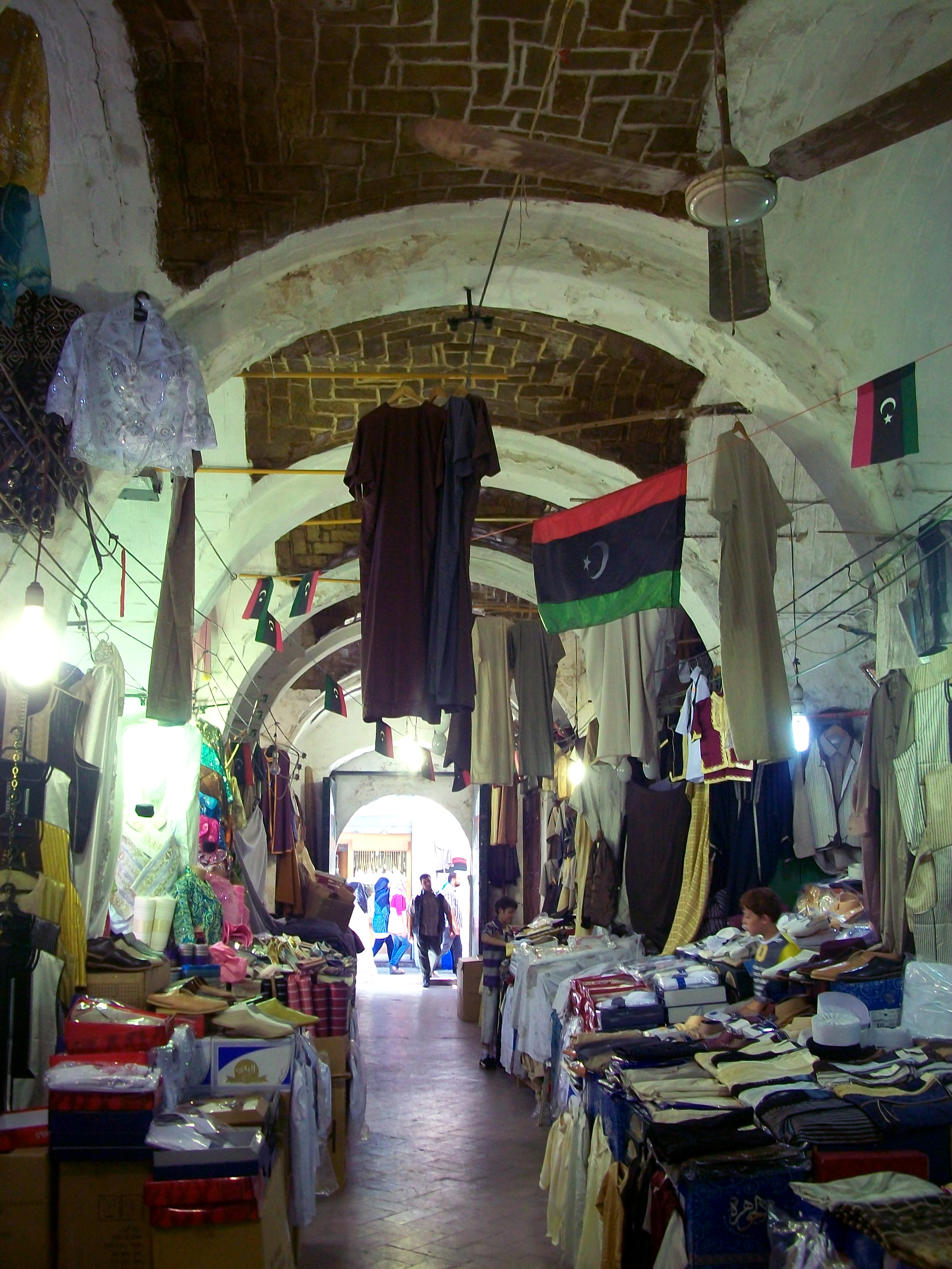 Souq Eliffa in the old town on Libya's capital Tripoli.